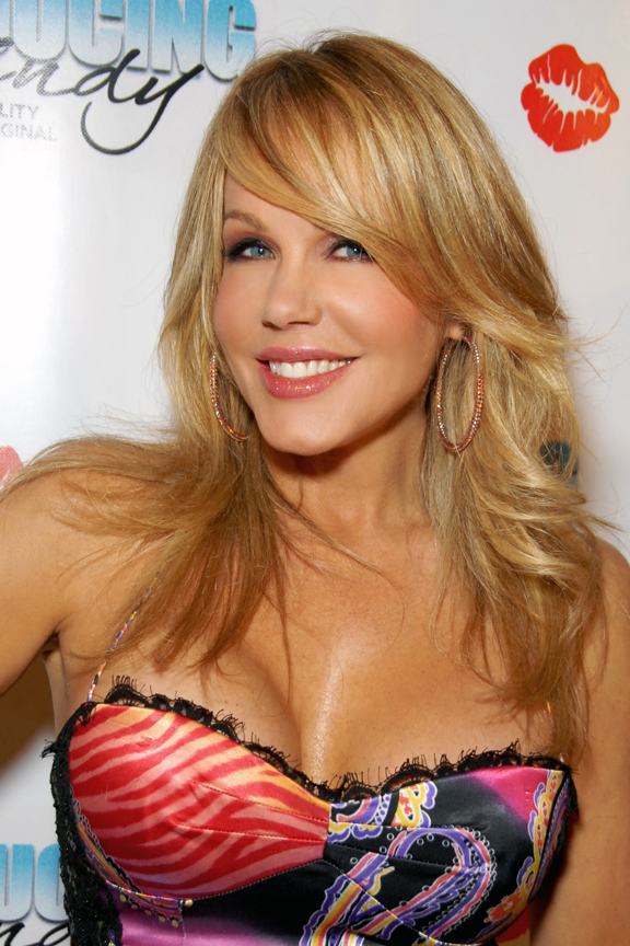 Luann Lee attending the “Seducing Cindy” Finale Party, Studio city, CA on March 18, 2010 - Photo by Glenn Francis of